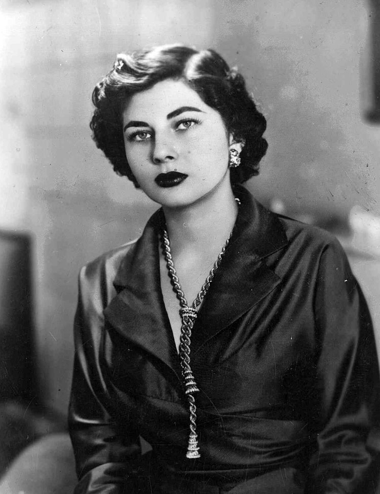 Soraya Esfandiary-Bakhtiari